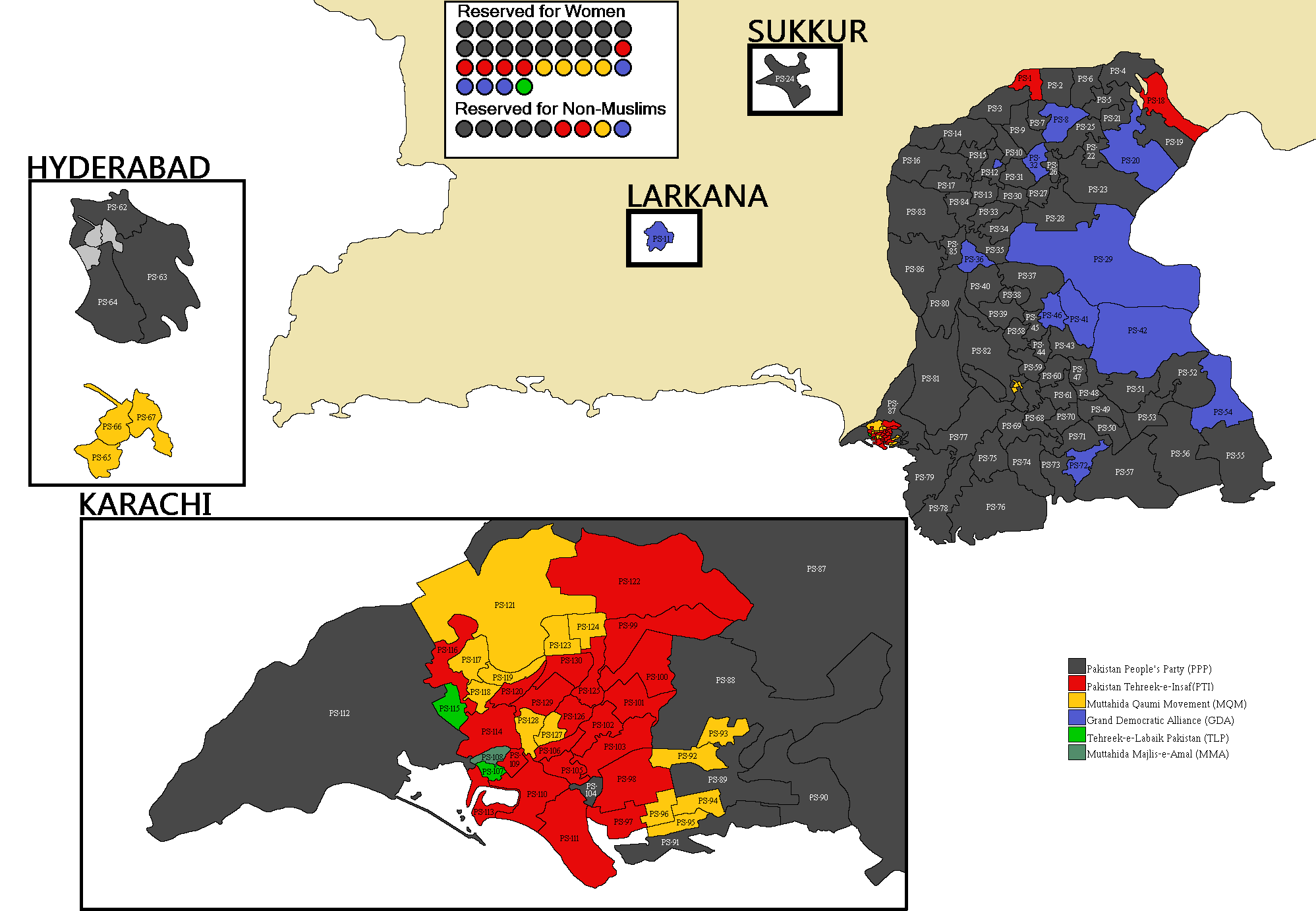 Map of Sindh Showing Assembly Constituencies and Winning parties